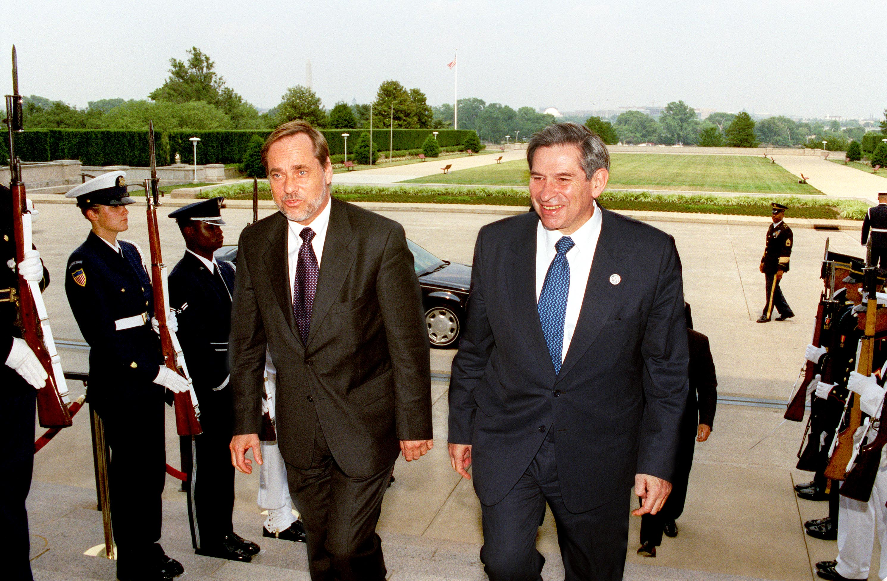 Original caption: Norwegian Minister of Foreign Affairs Jan Petersen (left) is escorted by Deputy Secretary of Defense Paul Wolfowitz through an honor cordon and into the Pentagon on June 10, 2002. Petersen and Wolfowitz will meet to discuss a range of bilateral security issues. DoD photo by R. D. Ward. (Released)